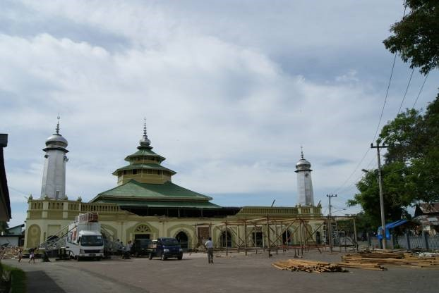 Masjid Ganting Pasca Gempa